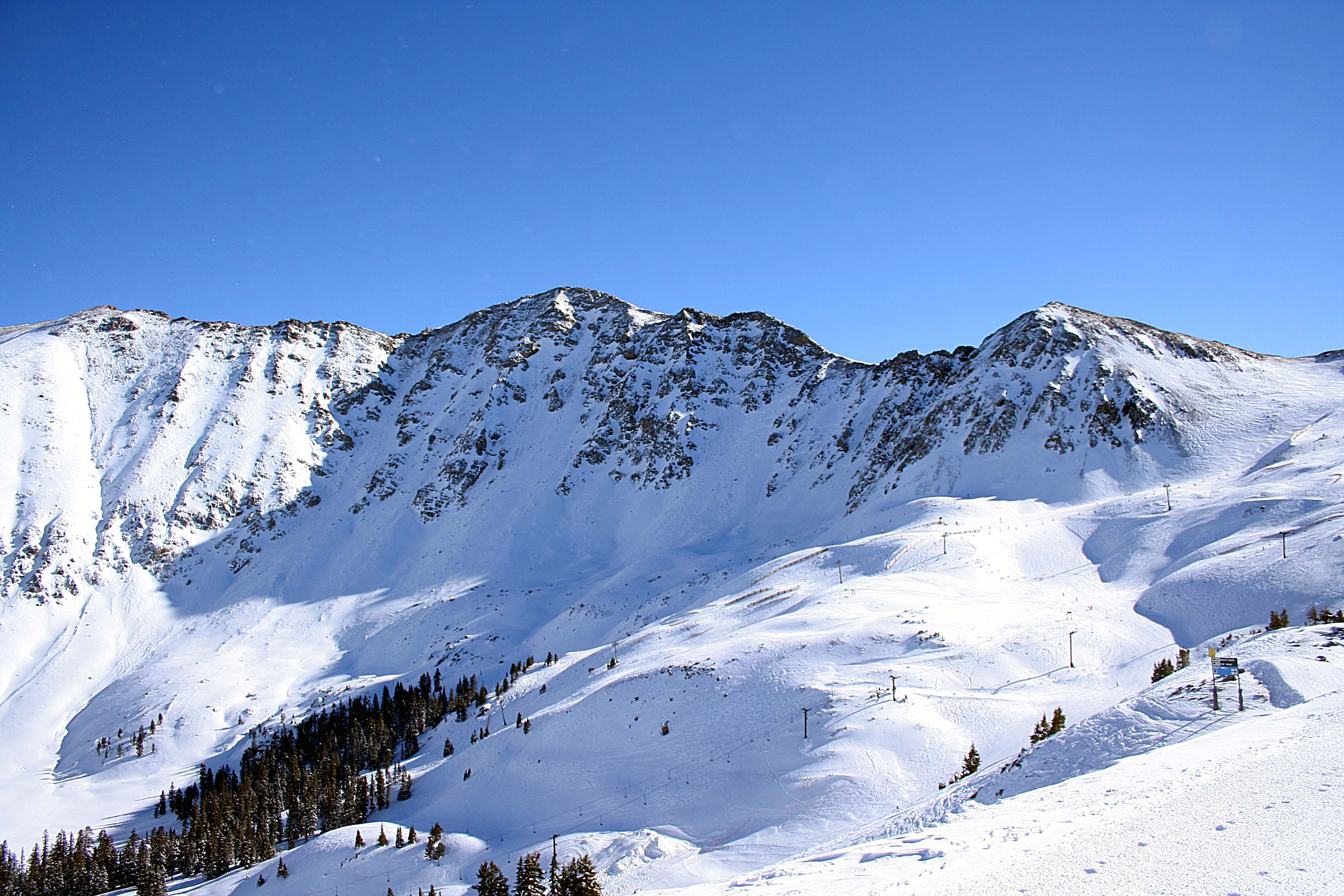 Adam Ginsburg 12/15/05 Picture of Arapaho Basin's East Wall(Lenawee Mountain, with Southwest Lenawee at center).